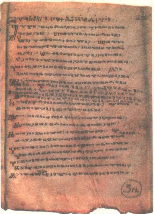 Sinai Psalter, glagolitic manuscript from the X-XI century